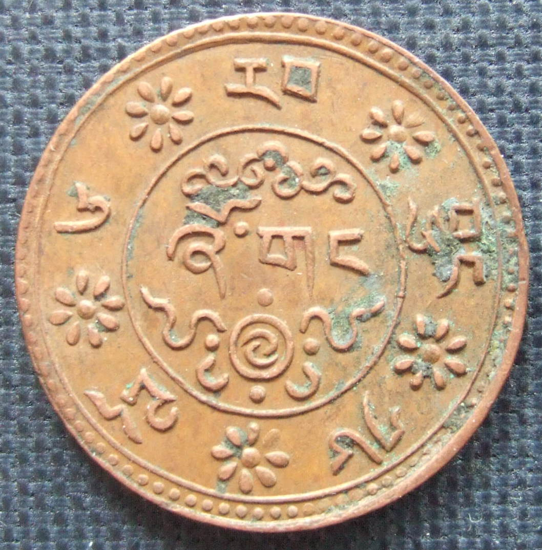 Tibetan 1 sho copper coin, dated 16-6 (= 1932), reverse.